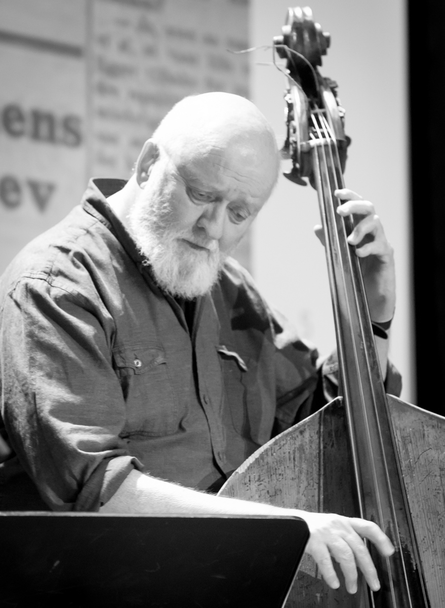 Rudolf Nilsens songs and poetry, performed at the stage of Cosmopolite. The concert took place on 10. December 2016 in Oslo. Lineup: Jon Arne Corell (guitar / vocal) Kari Svendsen (guitar / vocal) Lars Klevstrand (guitar / vocal) Steinar Ofsdal (flute) Carl Morten Iversen (double bass)